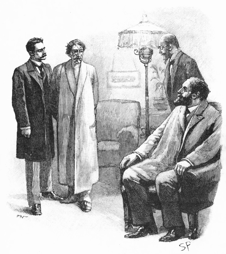 Illustration of the Sherlock Holmes adventure The Greek Interpreter, which appeared in The Strand Magazine in September, 1893. Original caption was "I WAS THRILLED WITH HORROR."